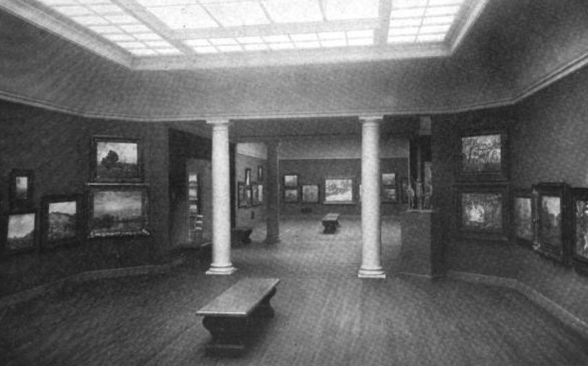 Lyme Art Association interior gallery 1921